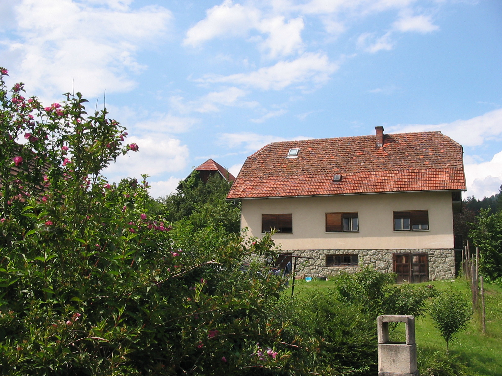 House Jelen (home name Klemše) in Šentilj by Velenje in Slovenia, where poet and writer Marija Brenčič-Jelen wrote and died.